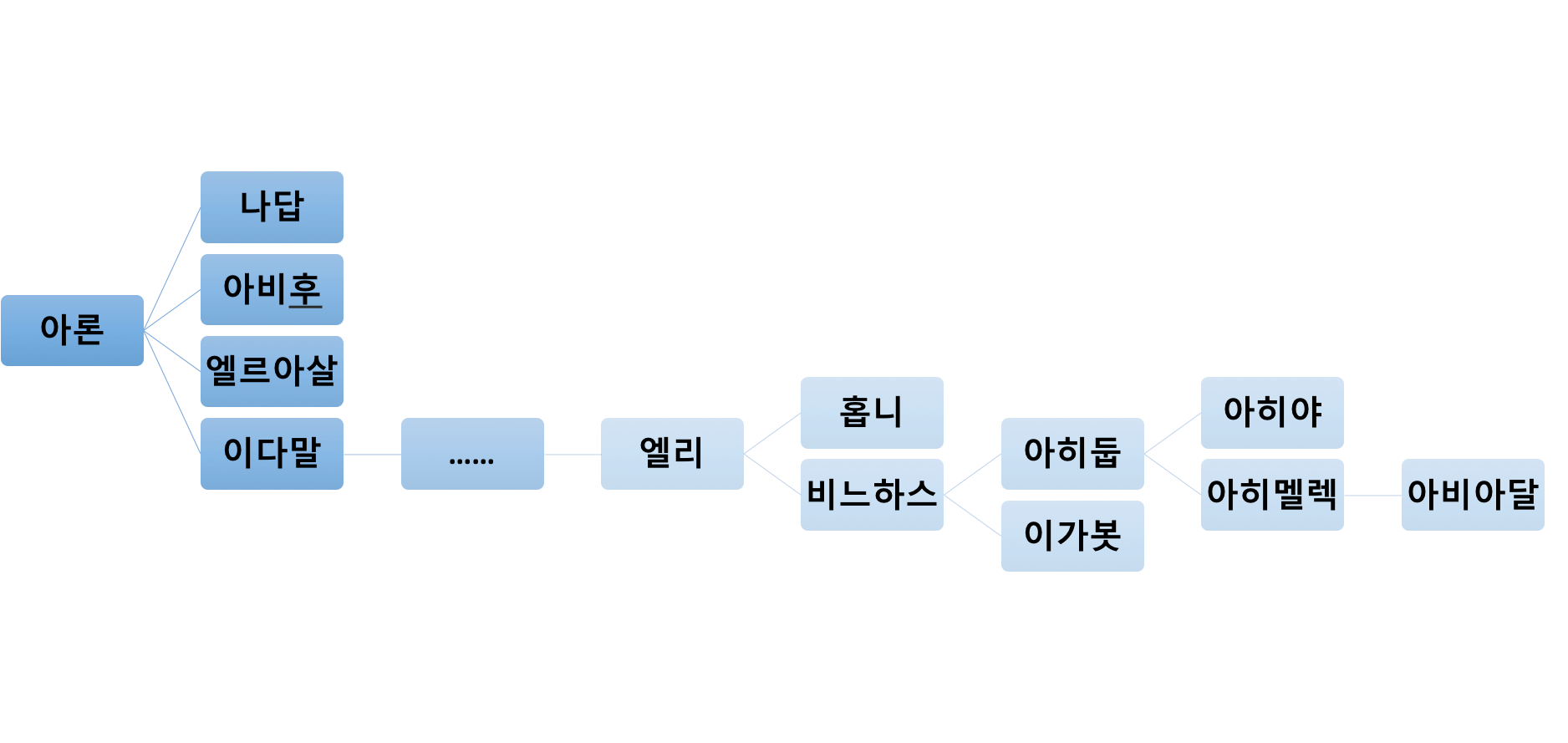 eli's son